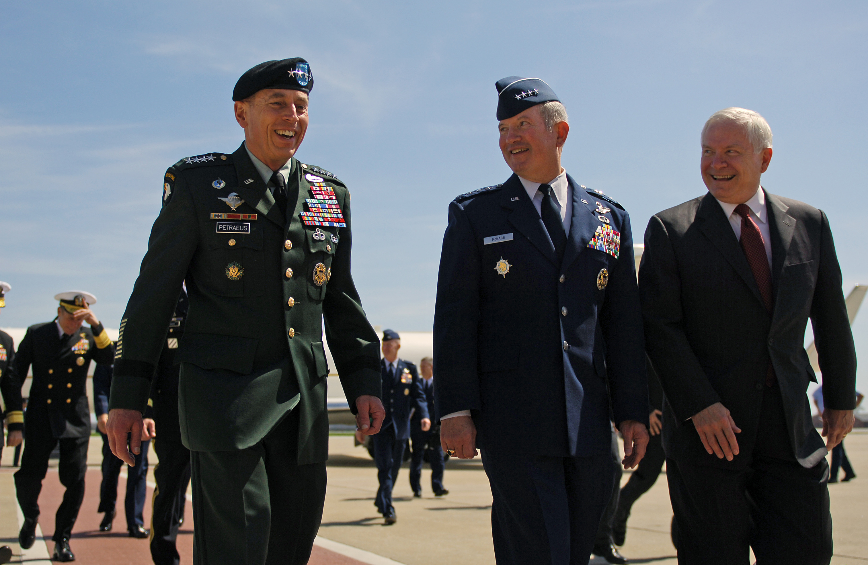 Commander of U.S. Central Command Gen. David Patraeus (left), U.S. Army, and Commander of U.S. Transportation Command Gen. Duncan McNabb, U.S. Air Force, greet Secretary of Defense Robert M. Gates (right) at Scott Air Force Base, Ill., on April 1, 2010. Gates presented the U.S. Transportation Command with the Joint Meritorious Unit Award.